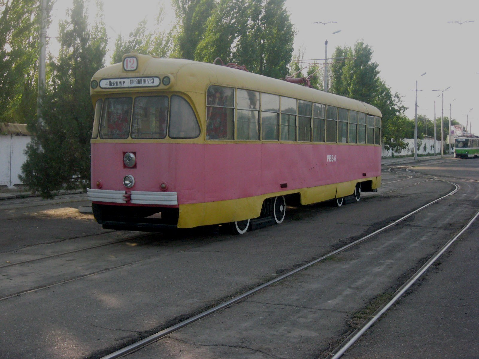 Museum RVZ-6 wagon in tram depot №2 of Tashkent